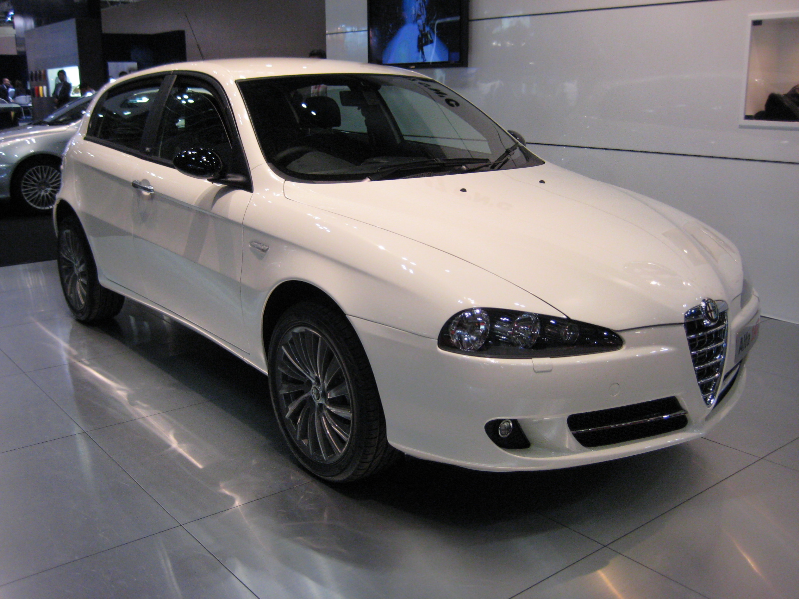 Alfa Romeo 147 Costume National in Tokyo Motor Show 2007